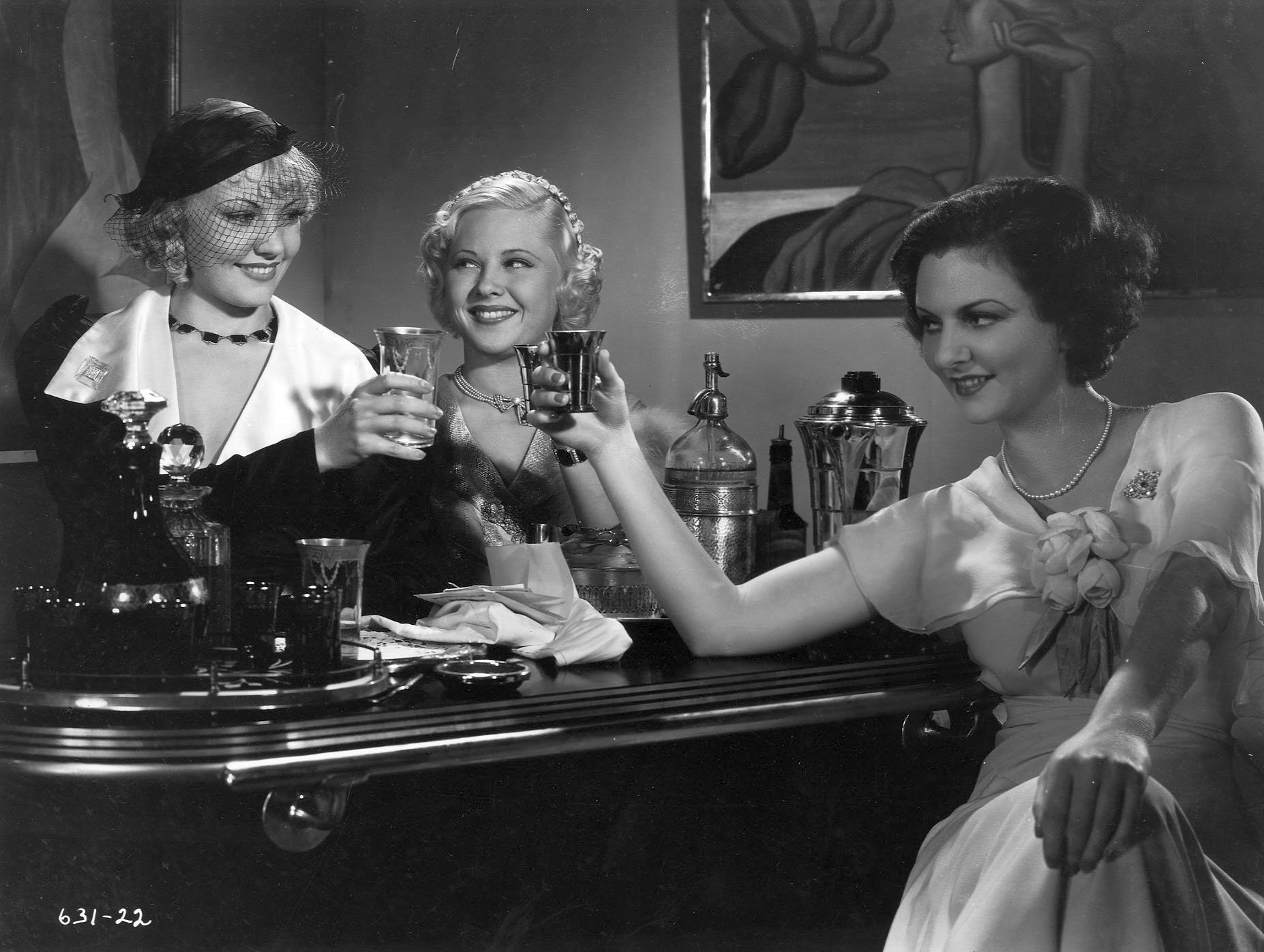 three cheers with June Knight, Mary Carlisle, Dorothy Burgess and in 1933's Ladies Must Love